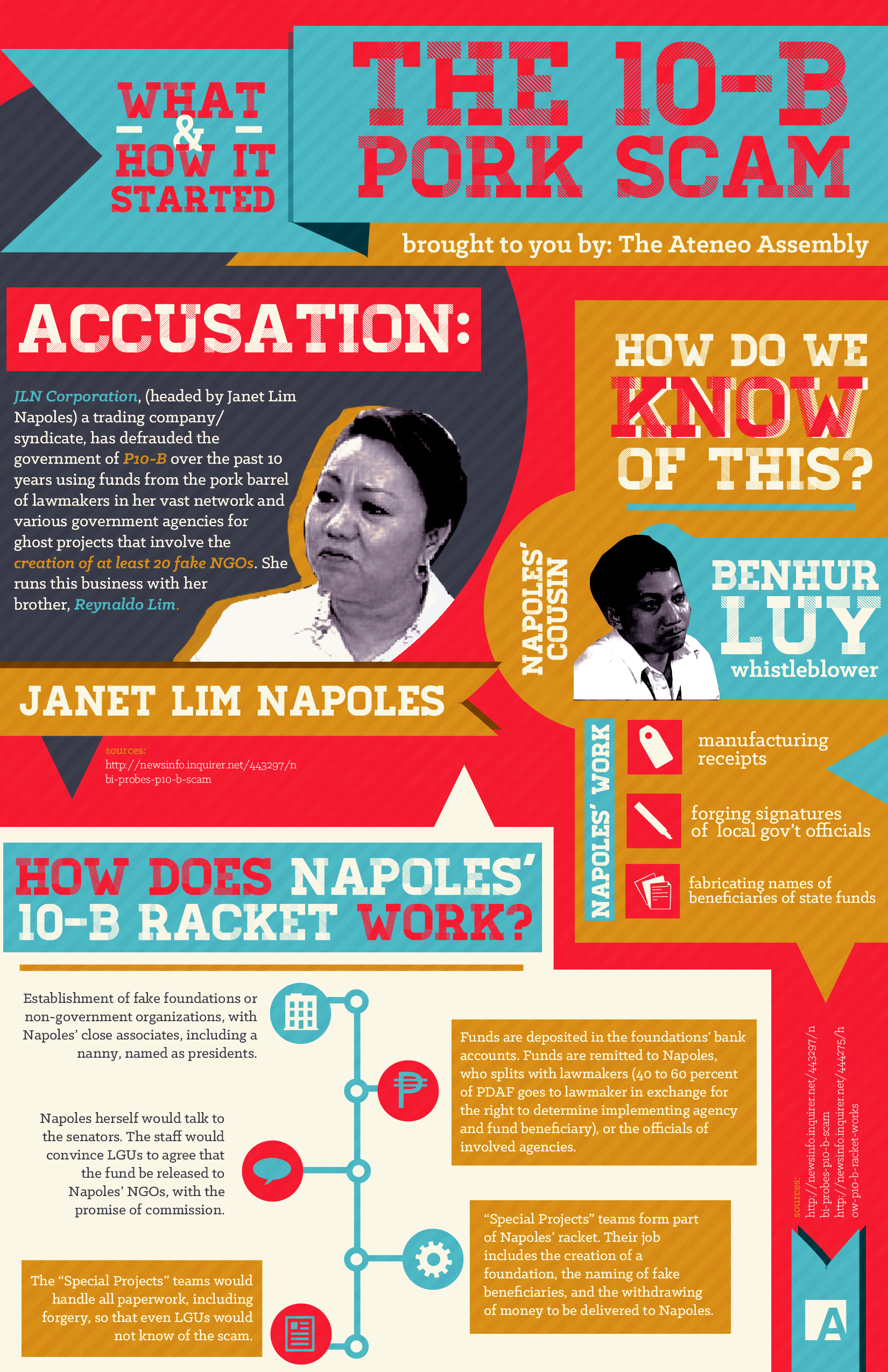 An infograph on the basics of the Priority Development Assistance Fund scam, produced by the Assembly, the Political Science Organization of the Ateneo de Manila University.